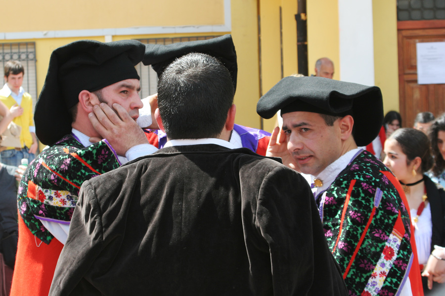 A tenor's chant in Oliena